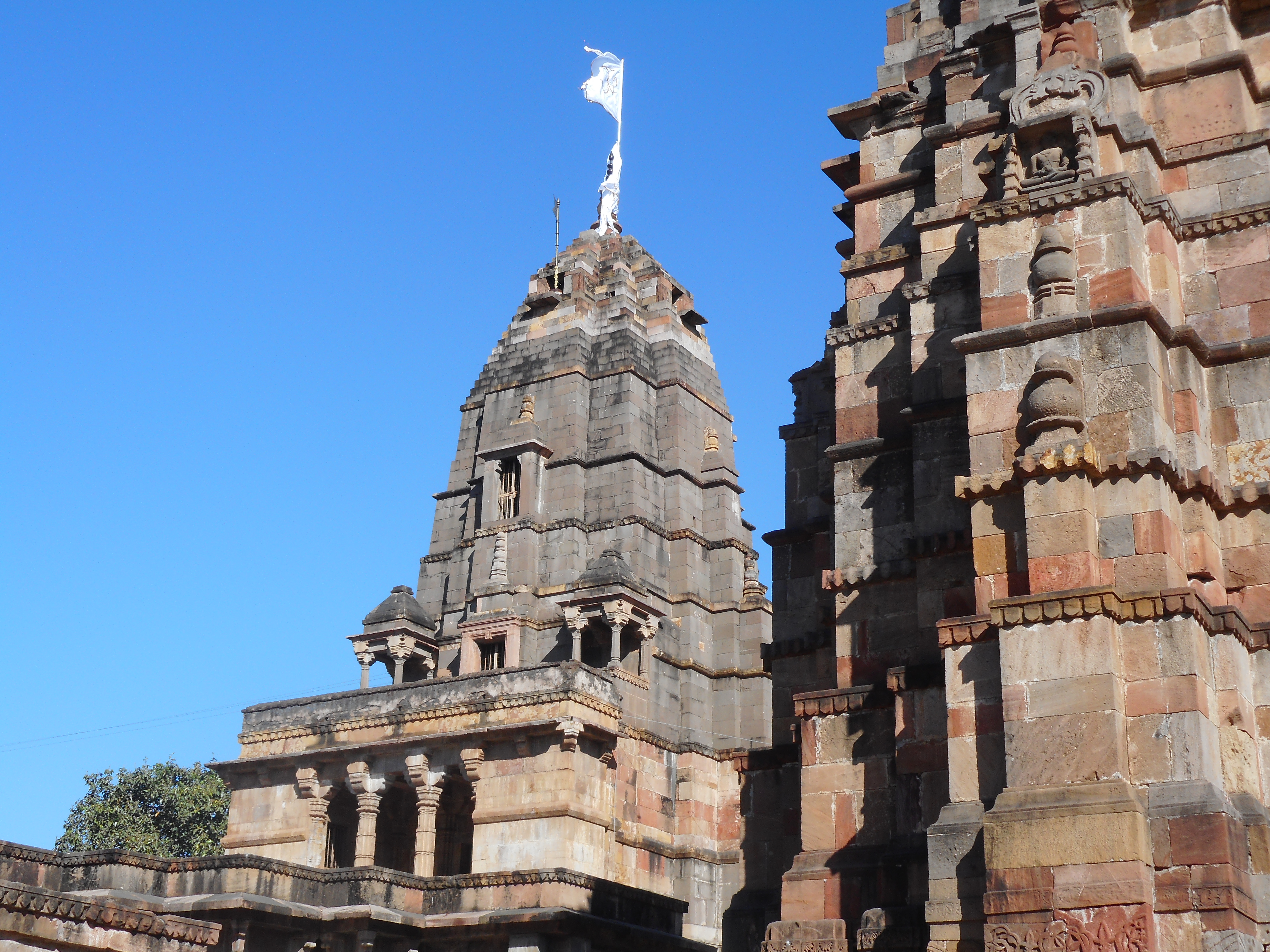 The Mamleshwar Temple